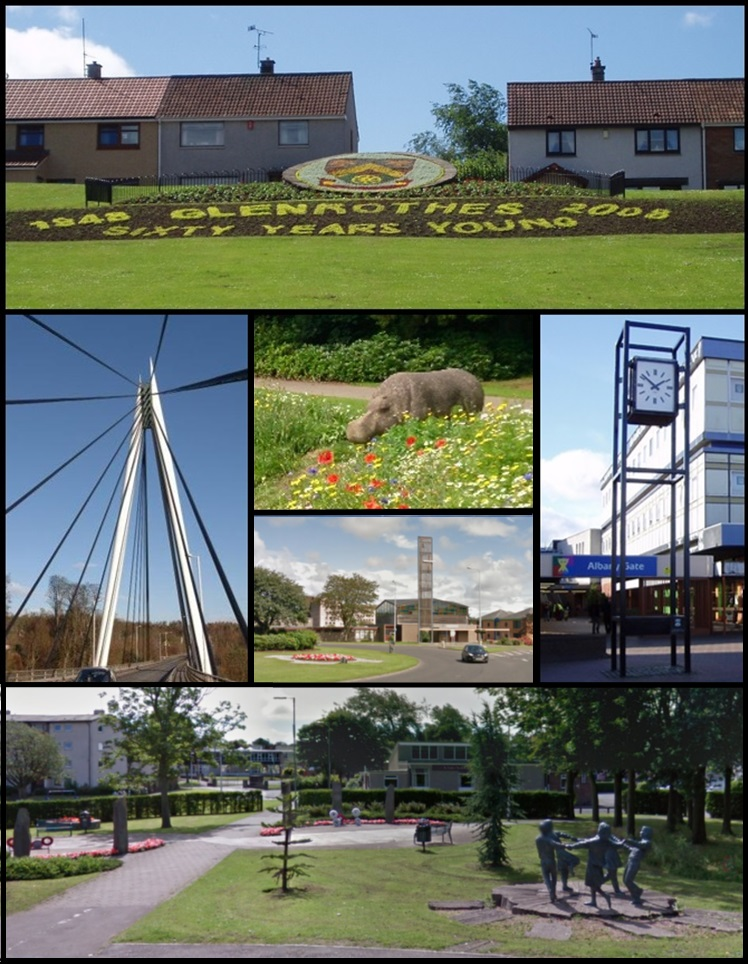 A selection of images of Glenrothes, Top picture shows the town centre skyline , the left image is an image of the town clock in the town centre, the right image shows the River Leven Bridge. The middle top image is of "The Dream" sculpture next to the town centre in Auchmuty. The bottom middle image is the Riverside Park Pond. The bottom image is a view of the main floral display at South Parks/ Riverside park which can be seen from Leslie Road.